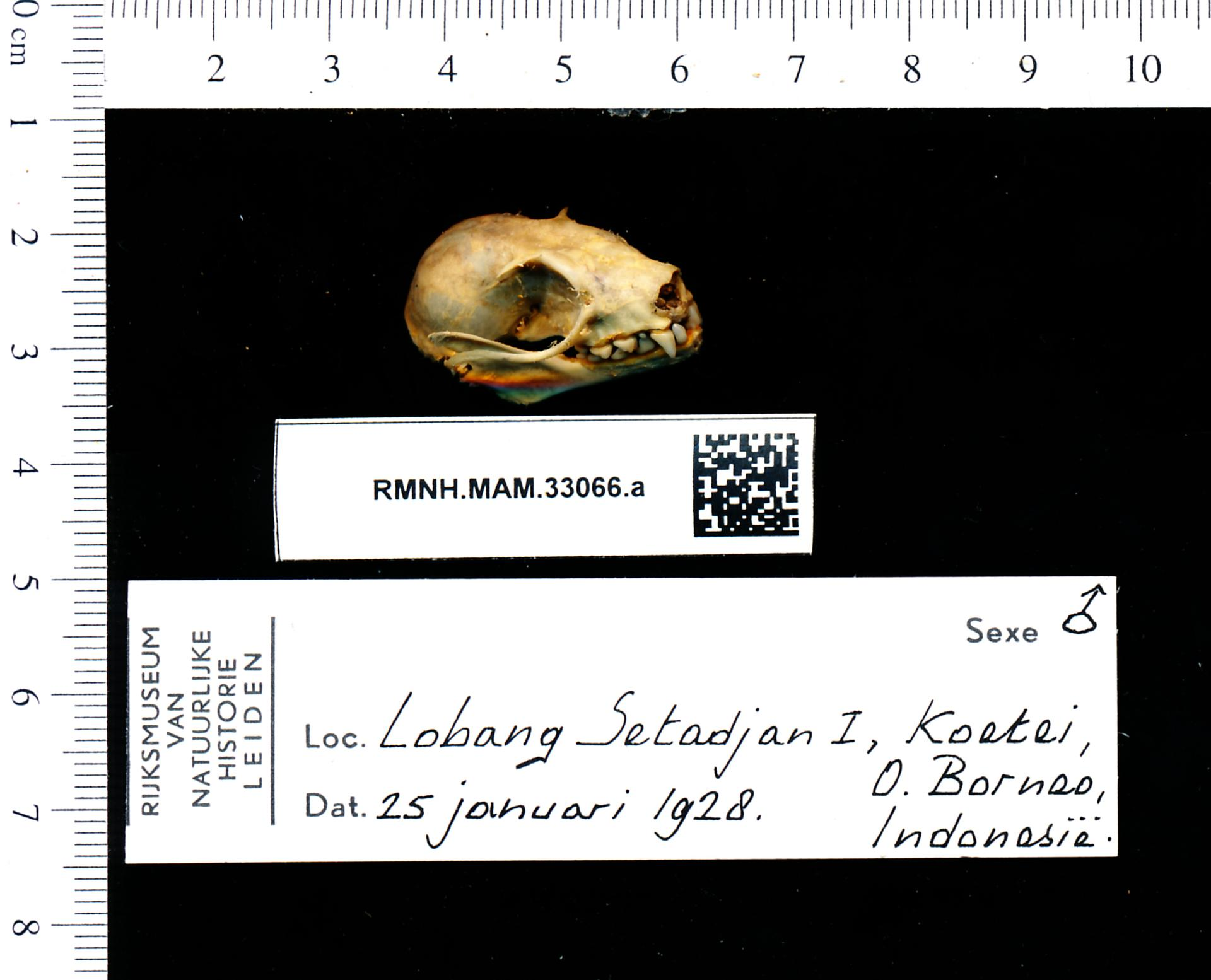 Penthetor lucasi